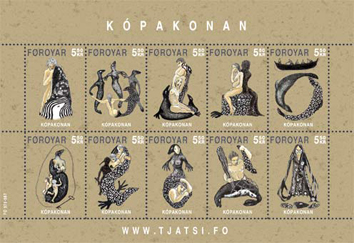 Stamps FO 578-587 of the Faroe Islands: The Seal Woman (kópakonan)